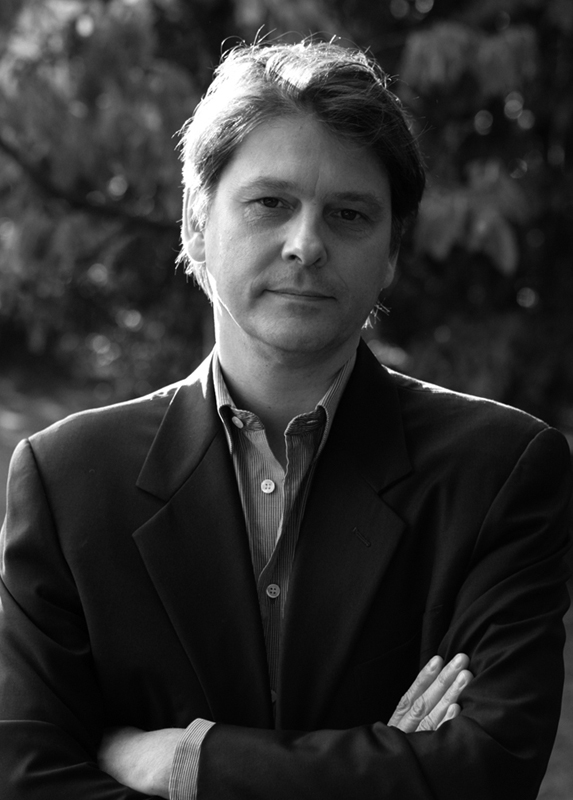 Michael Gleich